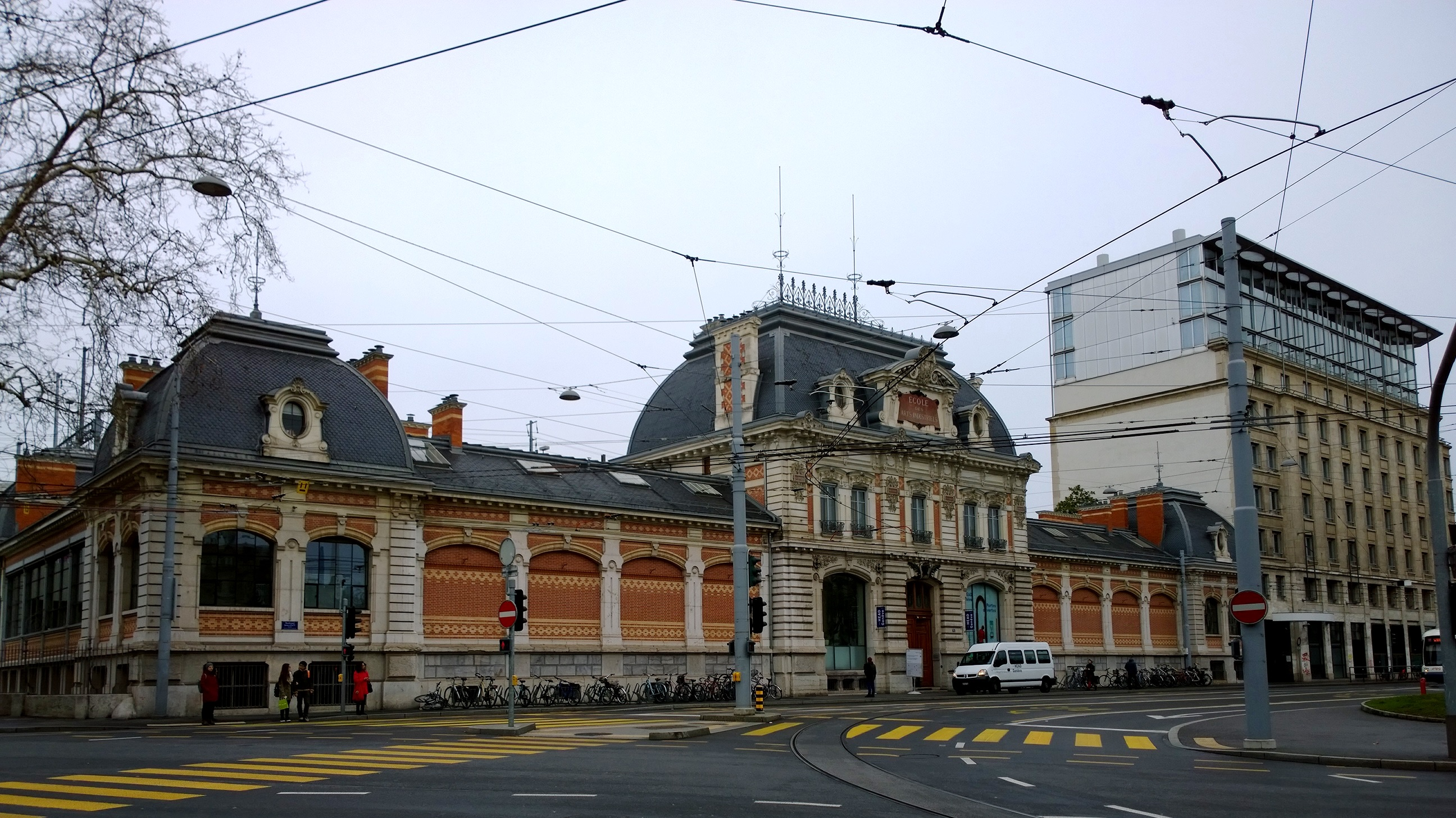 HEAD – Genève, Bâtiment des Arts industriels, Boulevard James-Fazy 15, Geneva. Taken on the "Open Doors" day, January 2018.